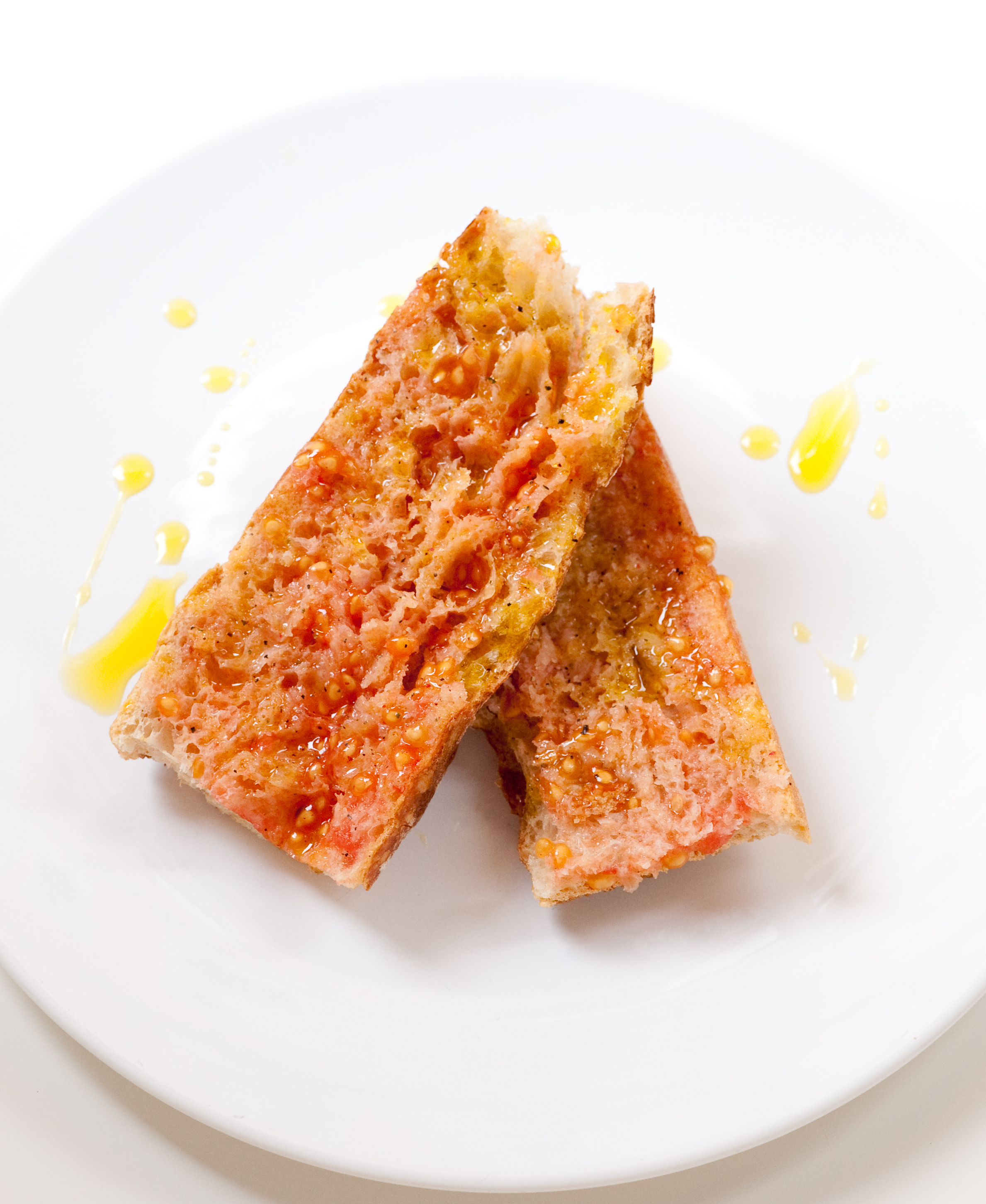 Pa amb tomaquet (catalan bread rubbed with fresh tomato and olive oil).